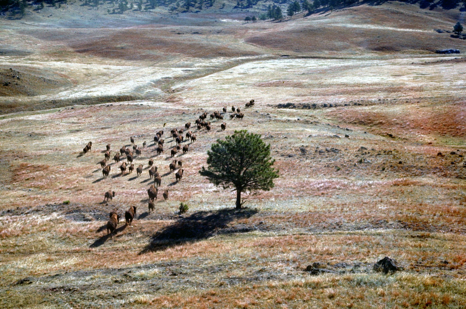 Wind Cave National Park